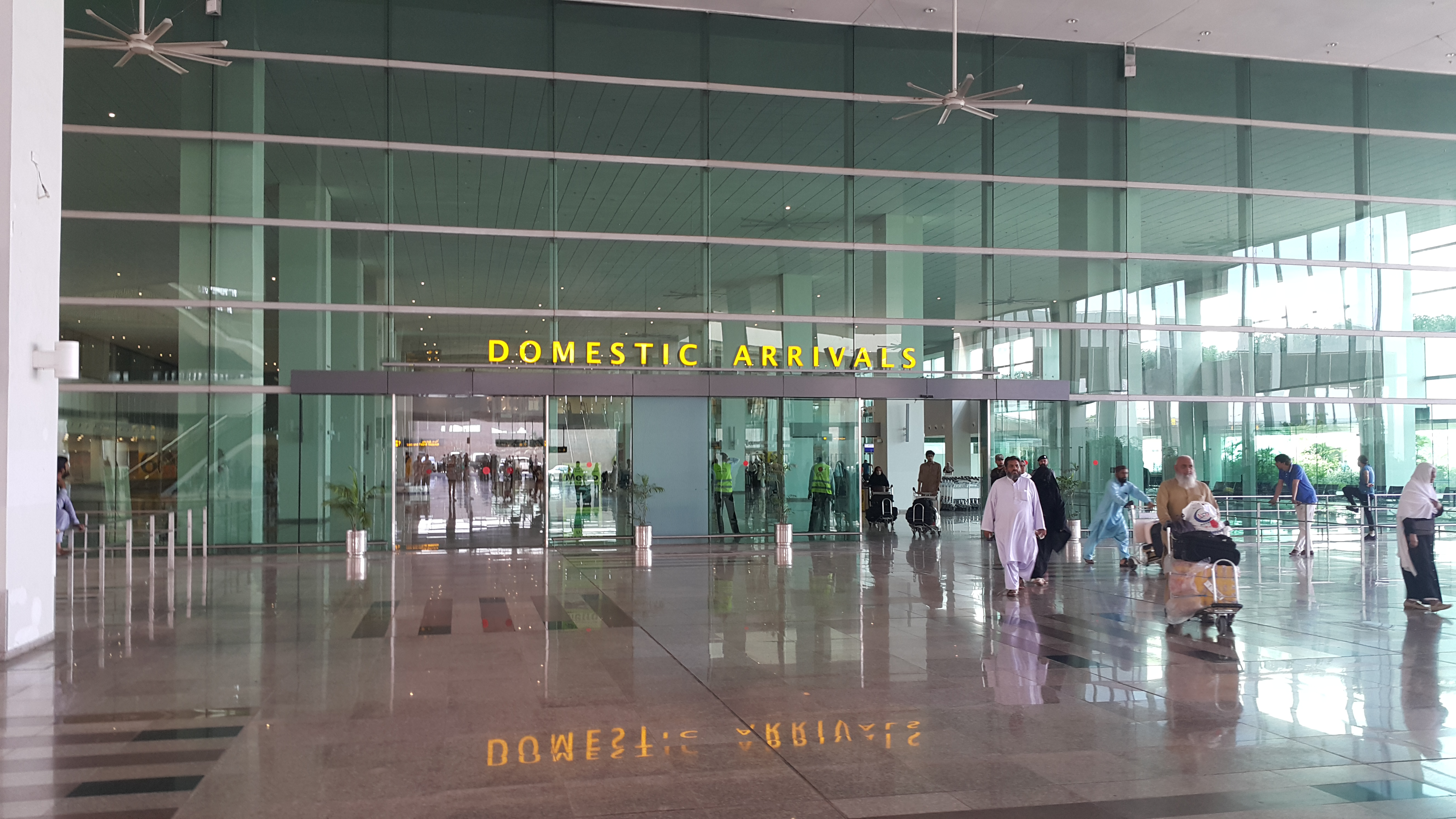 Islamabad International Airport Domestic Departures Area.